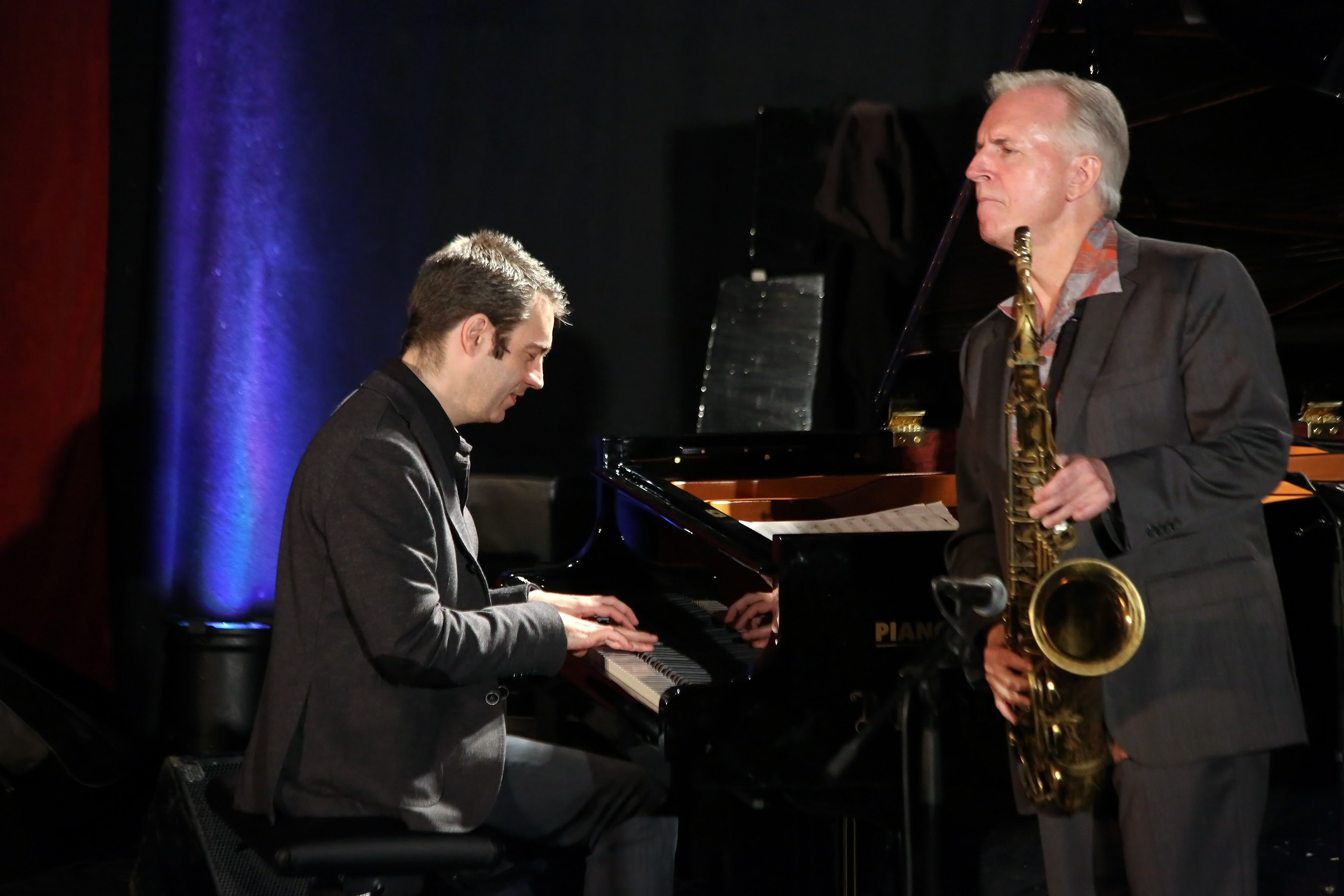 Scott Hamilton (sax), Andrea Pozza (p), Aldo Zunnino (b), Alfred Kramer (dr) - INNtöne Jazzfestival (Diersbach, Upper Austria)